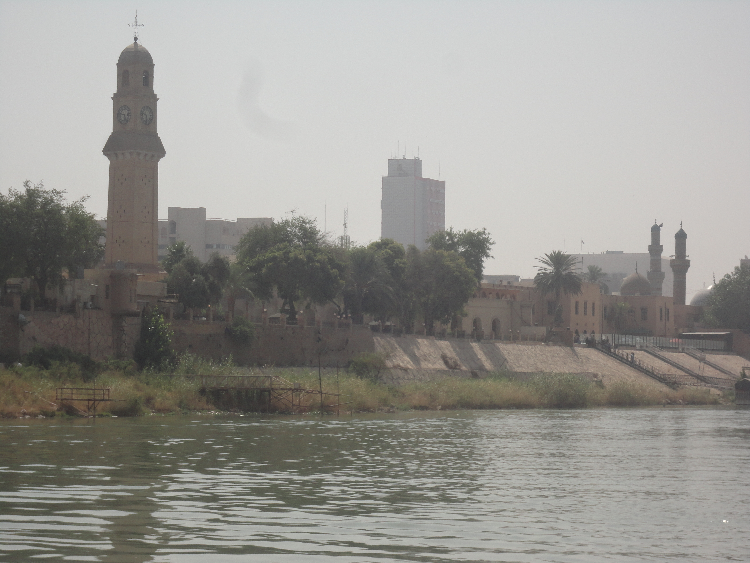 منارة ساحة القشلة في بغداد على ضفاف نهر دجلة وهي من تراث العهد العثماني ودوائرها الرسمية وتتميز المنارة بساعتها والساحة من الساحات السياحية وملتقى المثقفين والمبدعين